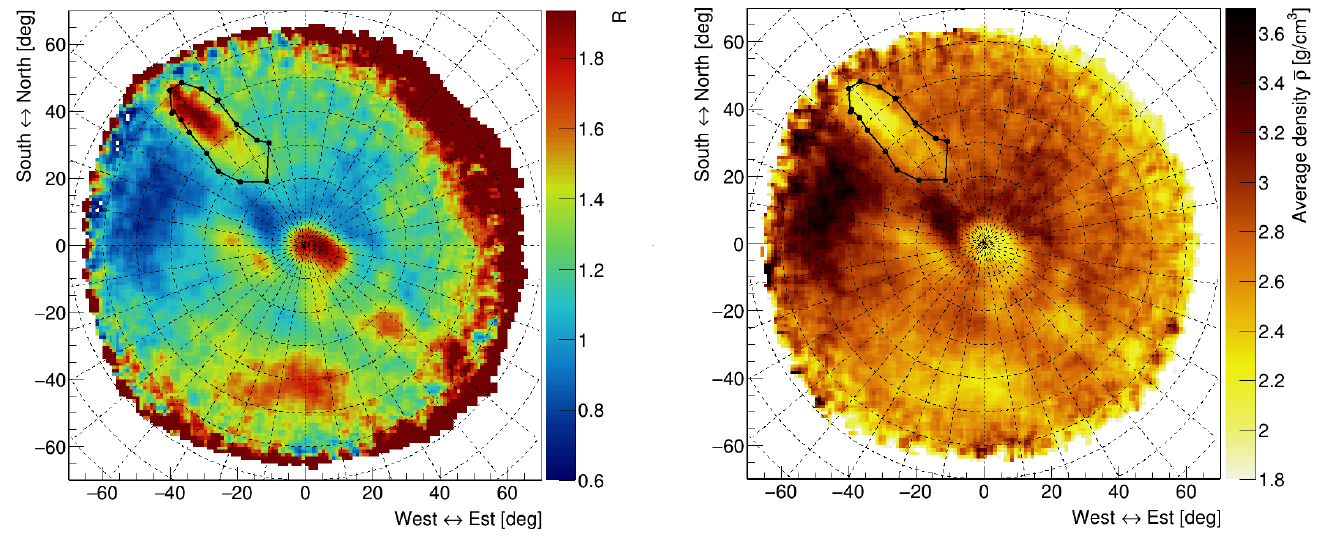 Gran Cava cave in Italian San Silvestro Park, imagined using muon radiography. Cave is marked by black dots and line. Image has been created using MIMA detector. On the left, muon relative transmission (R). The darker red, the higher number of transmitted and registered muon. On the right, average density of matter (rocks). The darker area, the denser matter lied on the way of muon flux. Both graphs use polar reference frame.